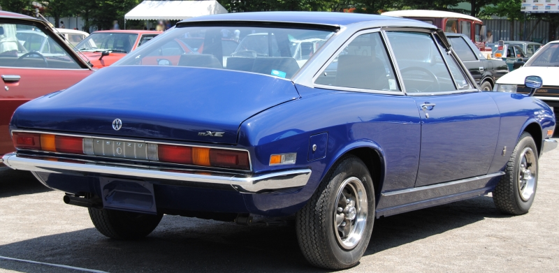 Isuzu 117 Coupe XE rear.